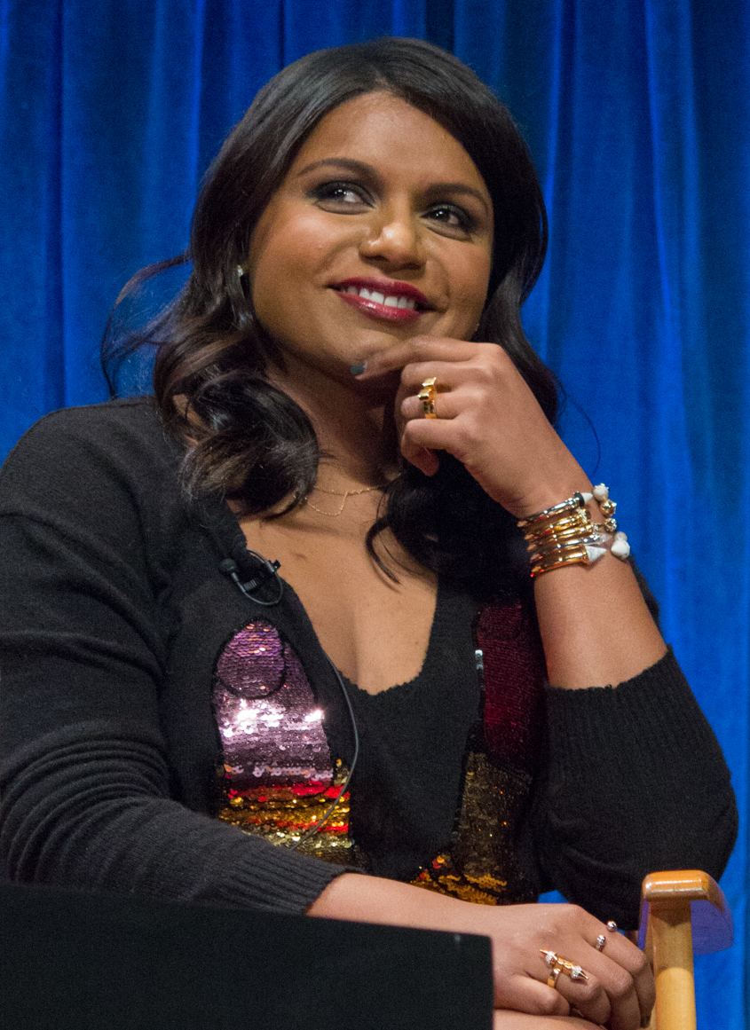 Actress Mindy Kaling at PaleyFest 2013's panel for "The Mindy Project"